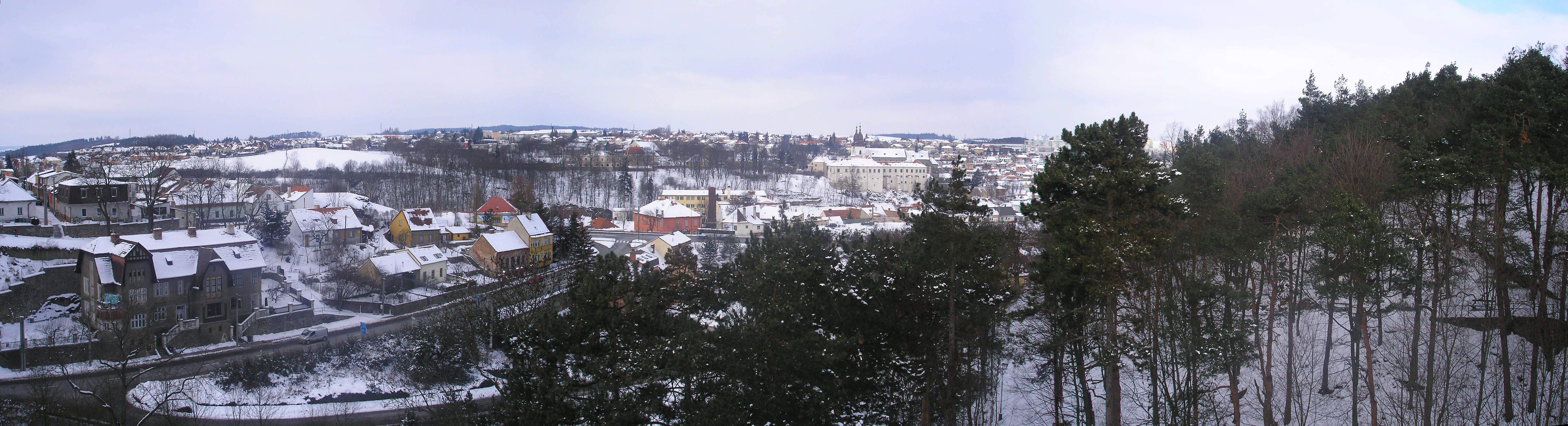 The panorama of Třebíč made from Borovina railway bridge